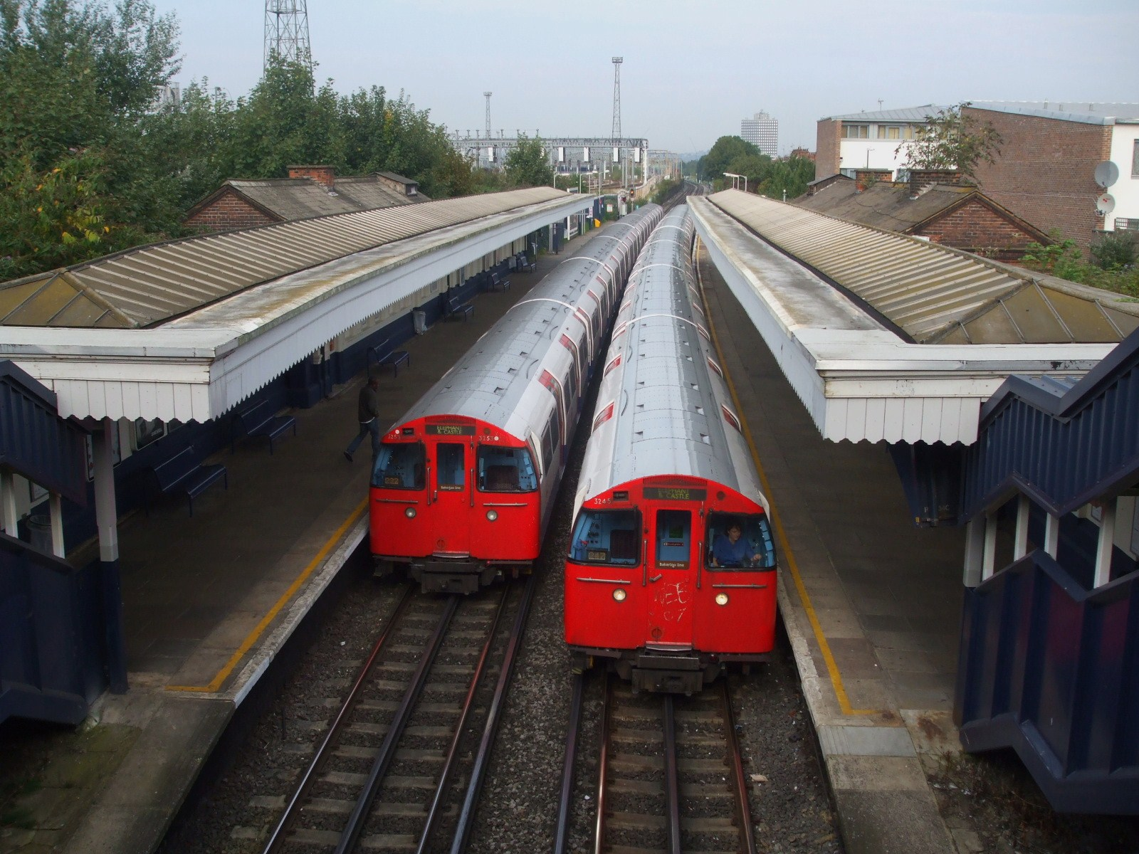 Harlesden station looking north from footbridge, with Bakerloo line 1972 Stock tube trains calling at each platform.